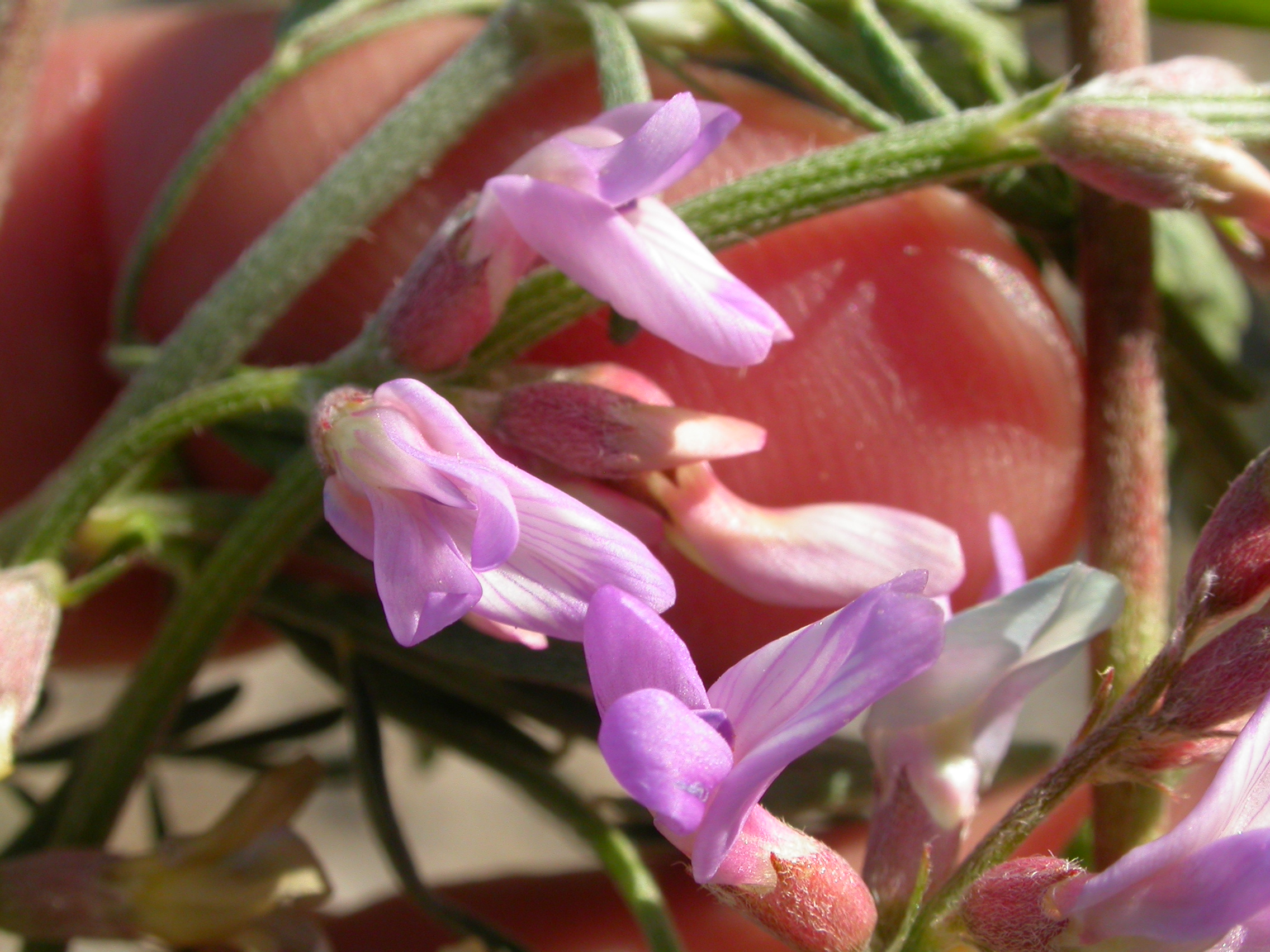 The is one of the more uncommon species of Astragalus encountered in this area.